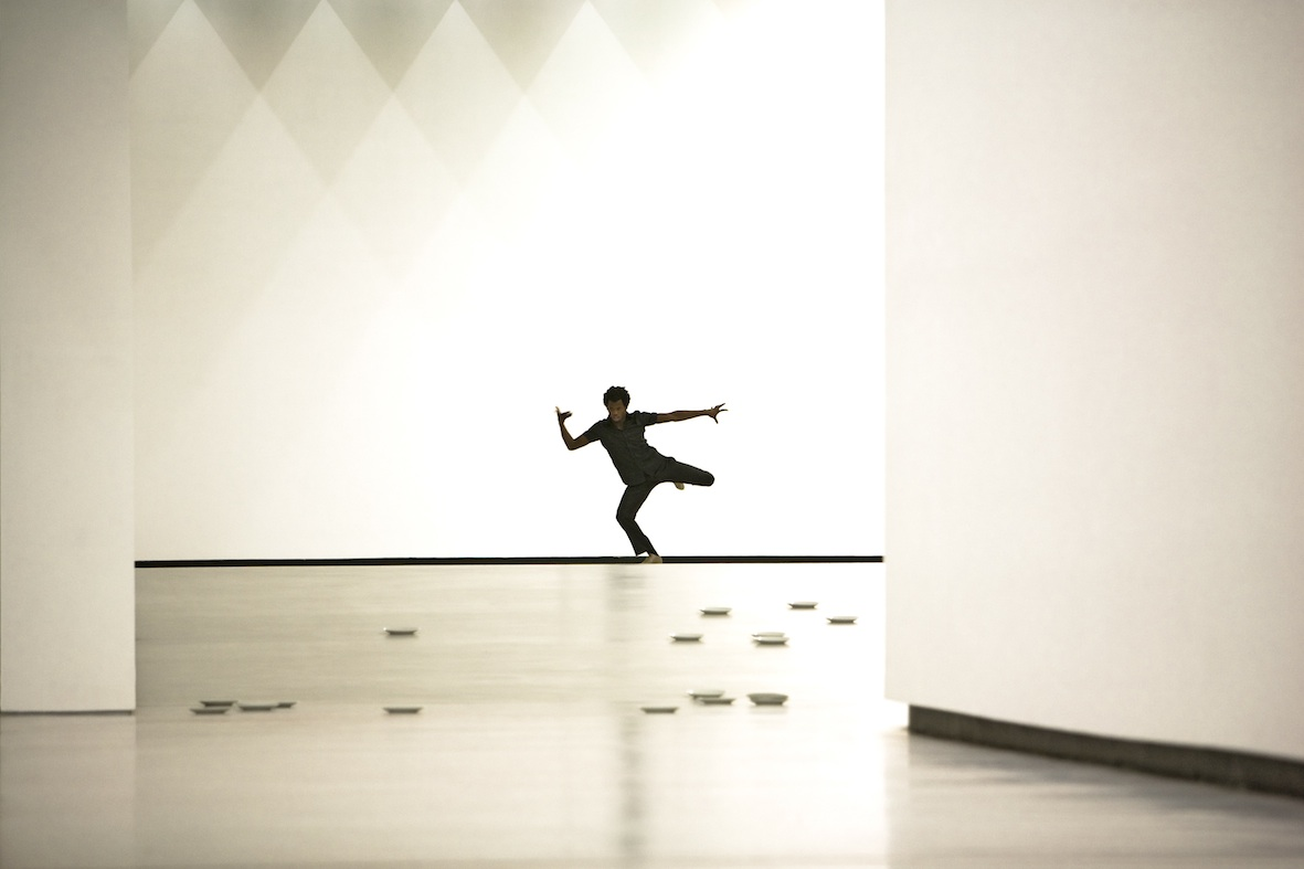 Presentation of "Dialoge 09" at MAXXI Rome, Italy